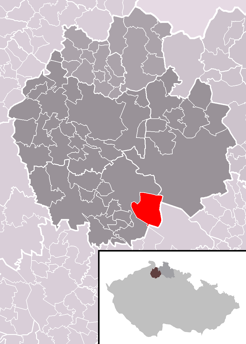 Location of Bezděz municipality within Česká Lípa District and administrative area of Česká Lípa as a Municipality with Extended Competence.